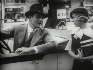 His Private Secretary, a 1933 film by Phil Whitman, with John Wayne and Evalyn Knapp.